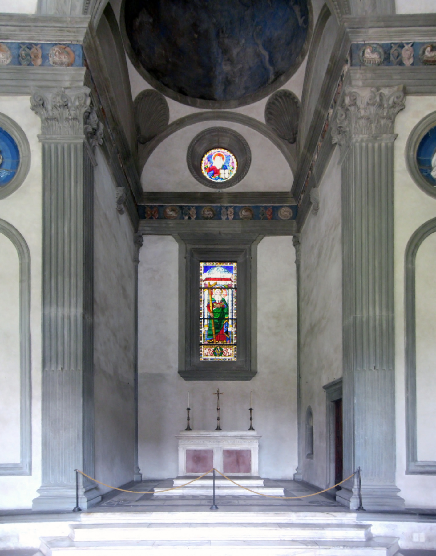 Altar with stained-glass window in the Pazzi Chapel in Florence.